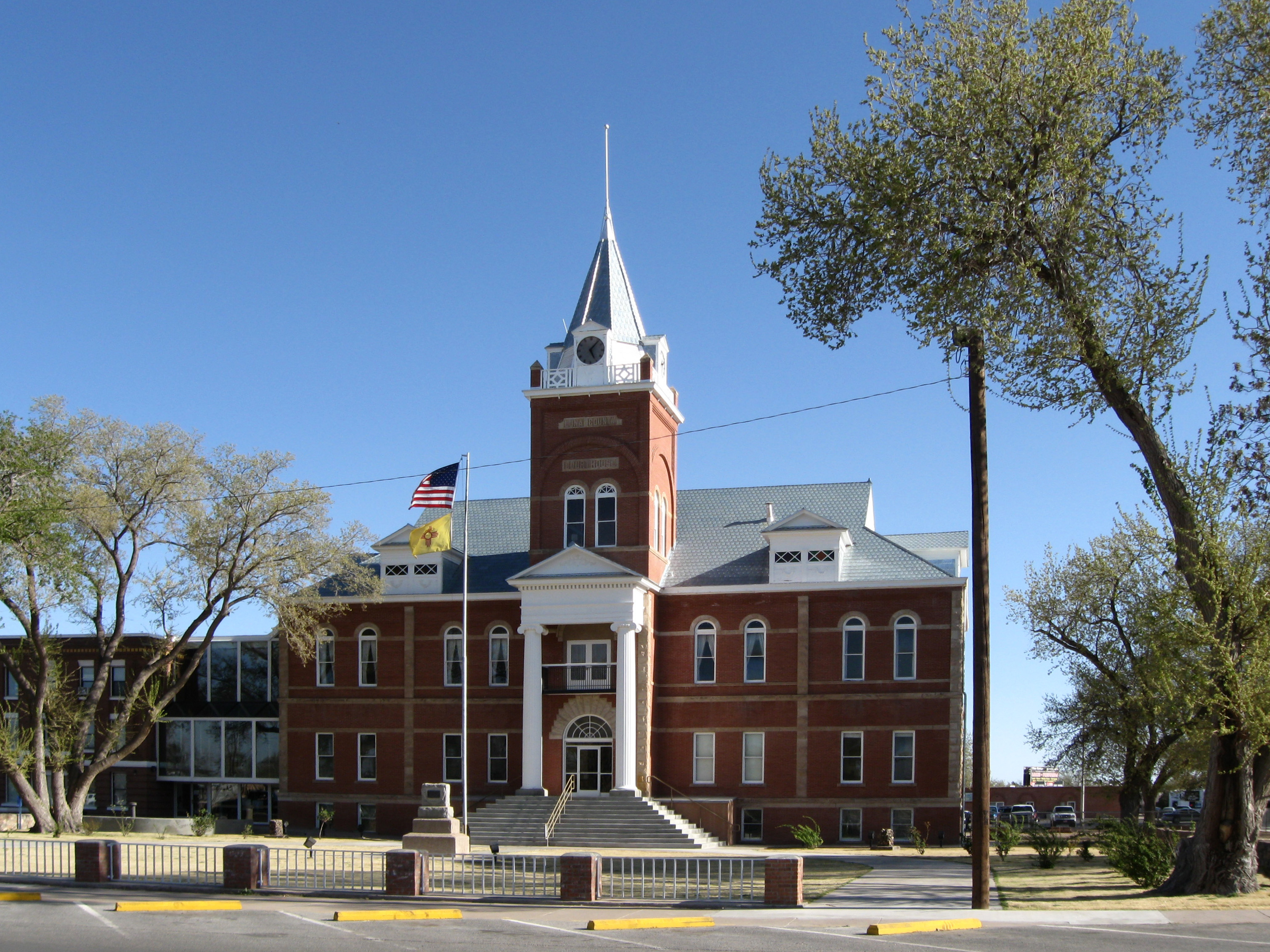 Luna County (New Mexico) Court House, located at 700 South Silver Street in Deming, New Mexico.